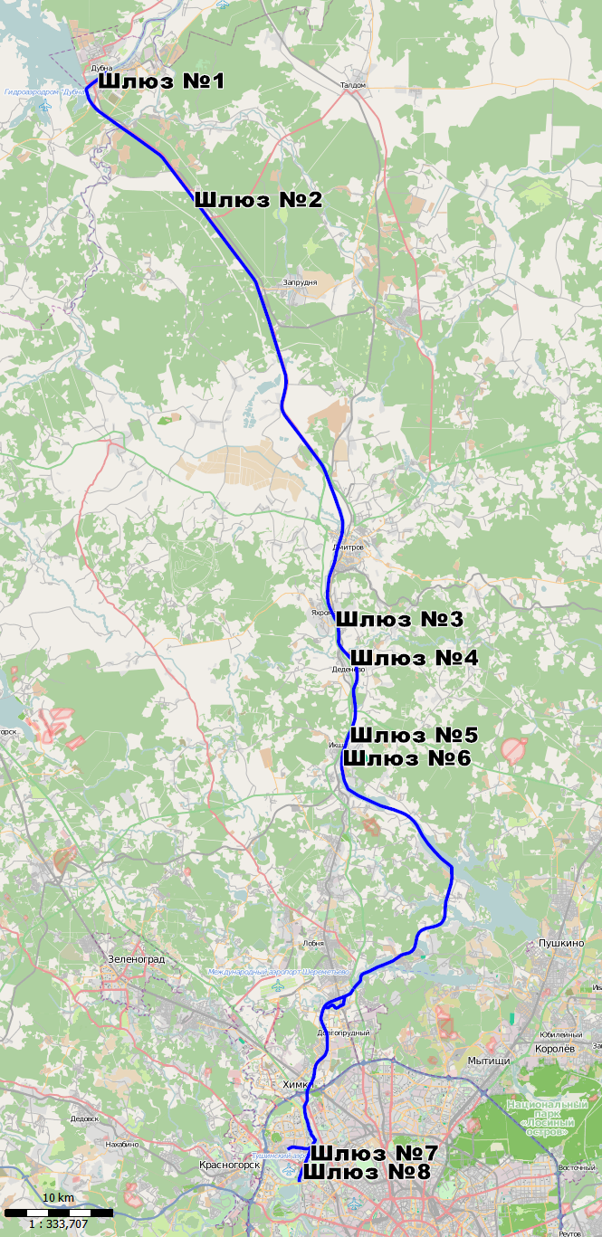 Map of the Moscow canal with locks.